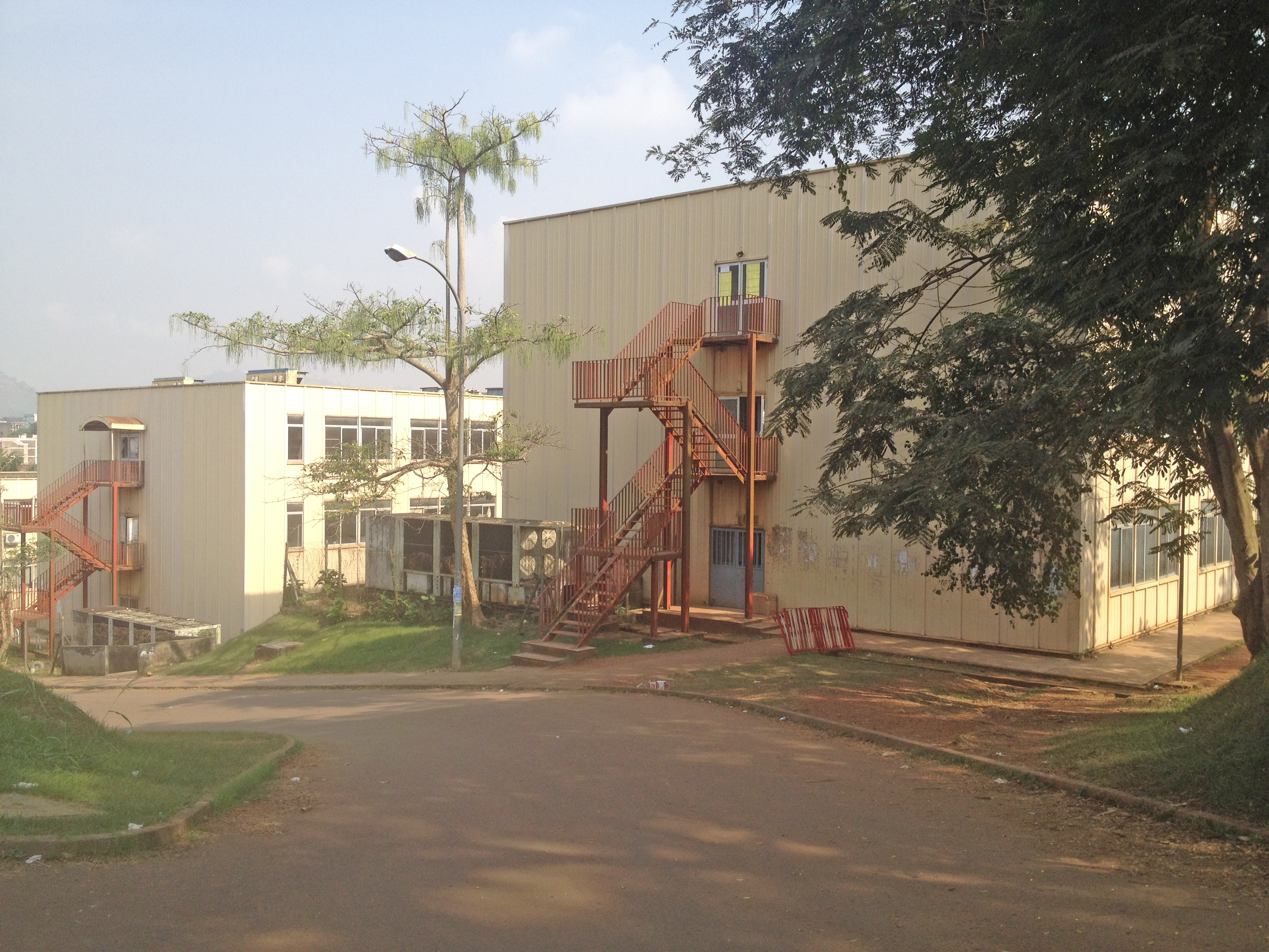 Buildings of the Faculty of Sciences of University of Yaoundé I.